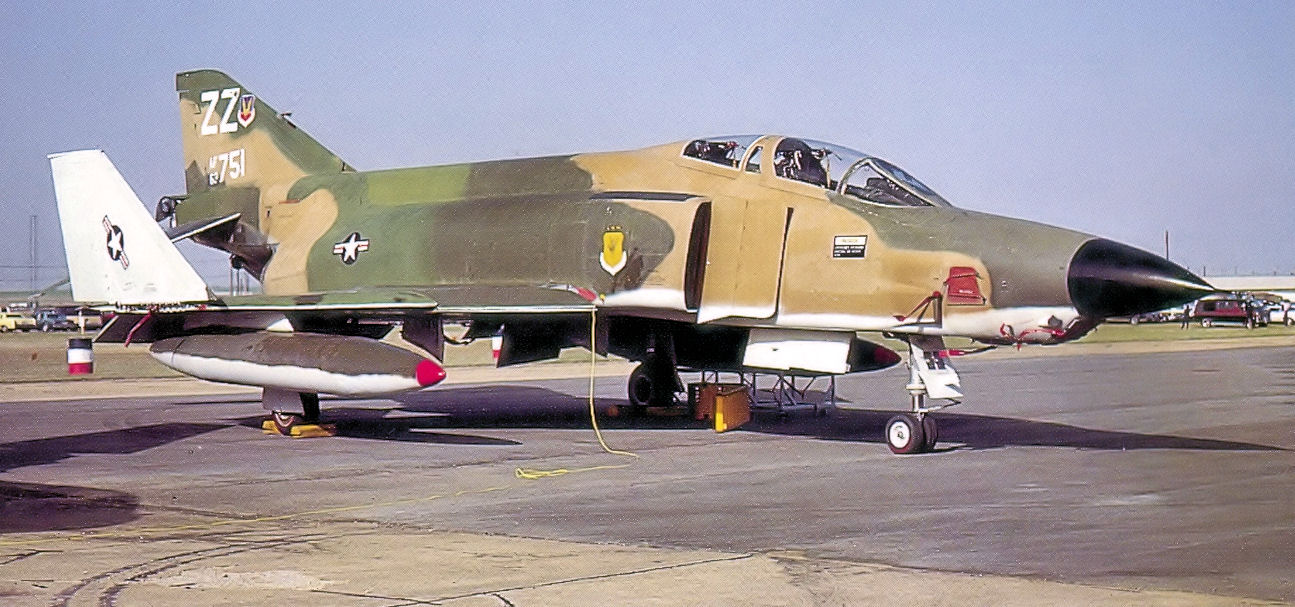 15th Tactical Reconnaissance Squadron McDonnell RF-4C-19-MC Phantom 63-7751 Kadena AB, Okinawa, 1975